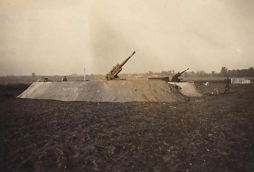 8,8cm-antiaircraft battery in Berlin-Karow, Gun "Anton" in firing position (October 1943)